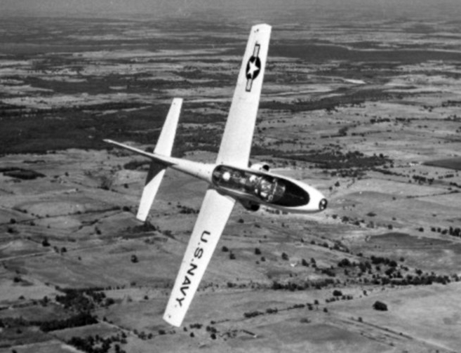 Head-on view of a U.S. Navy Temco TT-1 Pinto.